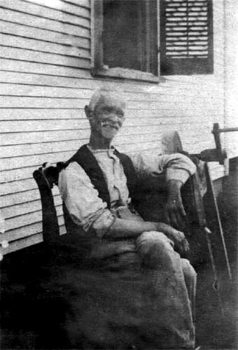 Basil Spalding